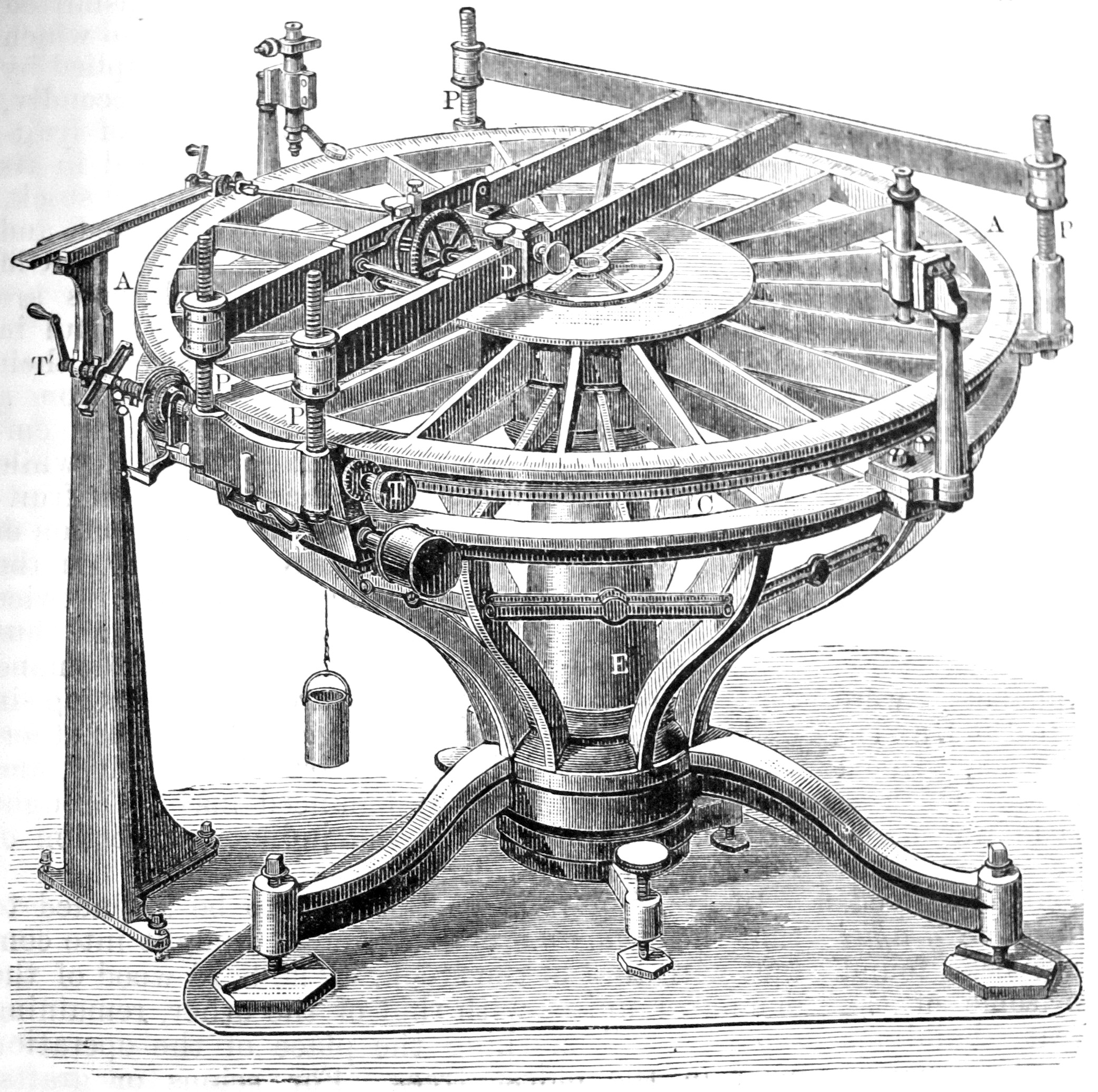 19 century etching of circular dividing engine